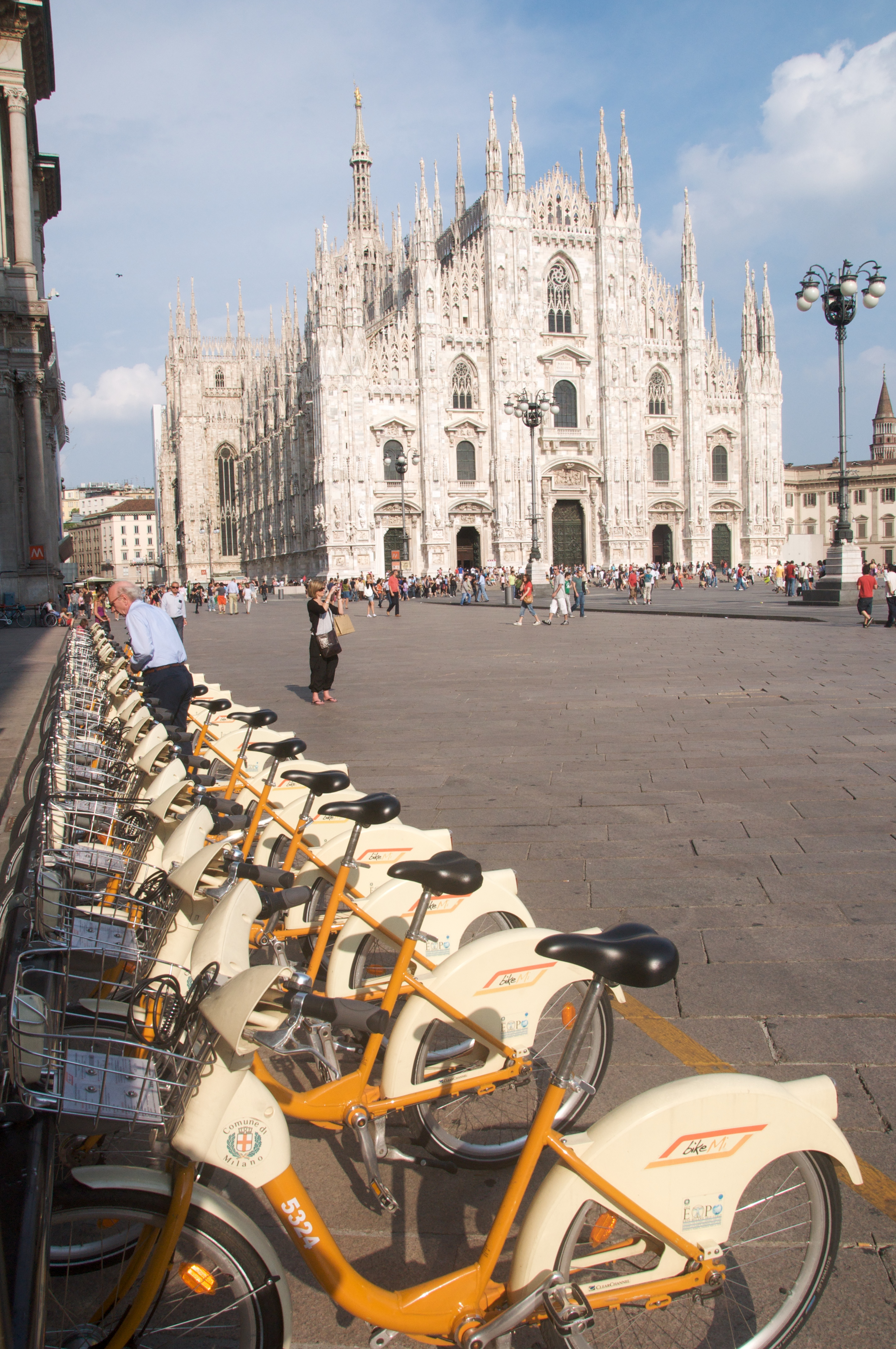 Bikemi bike sharing station in piazza del duomo, Milan